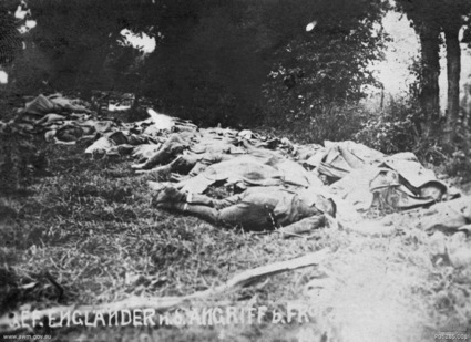 A German photograph depicting what is believed to be a large group of Australian or British bodies in a wooded area behind the German lines near the village of Fromelles in the aftermath of the Battle of Fromelles. The photograph forms part of a series taken by a German photographer that were printed and circulated as postcards aimed at boosting morale in Germany. The caption at the bottom reads "Gef. Englander n.d Angriff b. Fromelles 19.7.1916", which translates as "Fallen British from the attack at Fromelles on 19.7.1916". Note some of the bodies have been covered with ground sheets. Mass graves containing some 250 Allied soldiers from World War I were discovered on the edge of "Pheasant Wood" on the outskirts of Fromelles in 2008. The bodies are being reburied in Fromelles (Pheasant Wood) Military Cemetery.